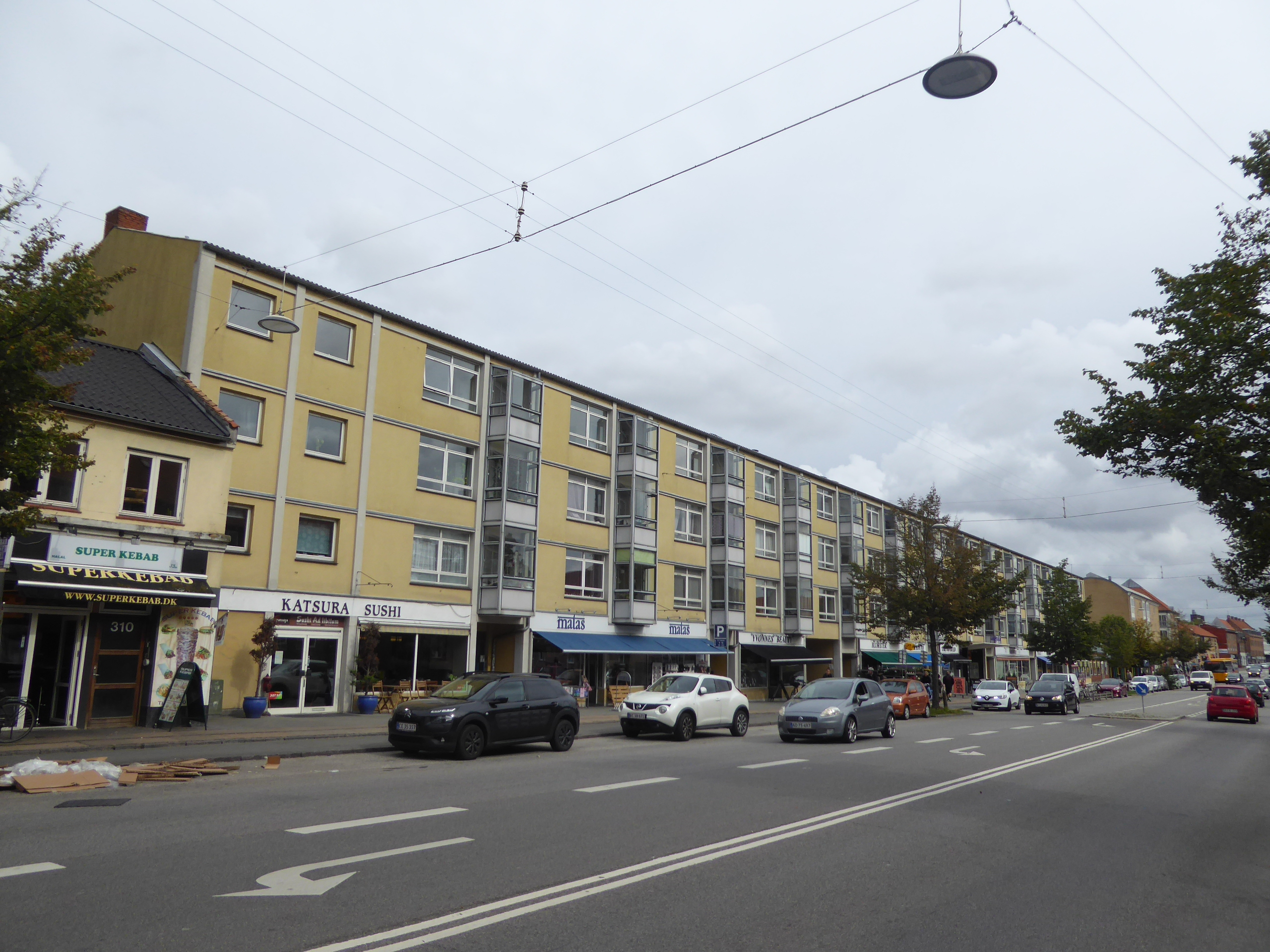 The housing cooperative A/B Husumtoften at Frederikssundsvej in Husum in Copenhagen.